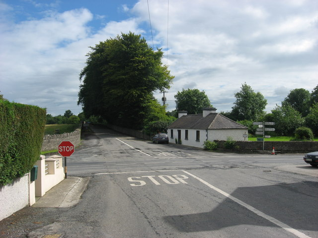 Crossroads at Croghan, Co. Roscommon Crossroads on the R370 road. Signpost points to Frenchpark, Boyle and Knock to the right (west), Boyle towards photographer (north) and Carrick-on-Shannon to left (east) and Croghan and Elphin straight ahead (south).